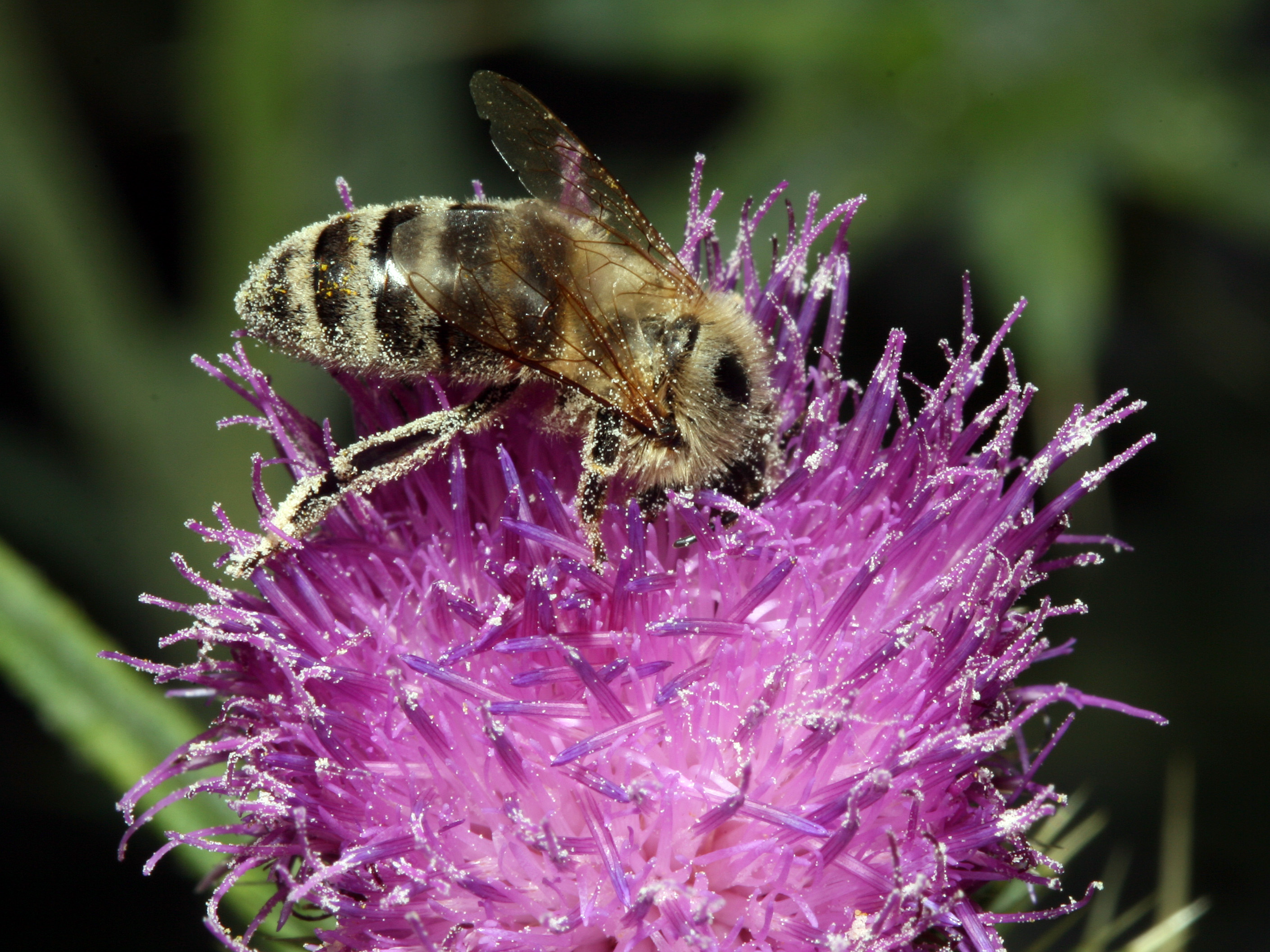 Honey bee with pollen on a thistle